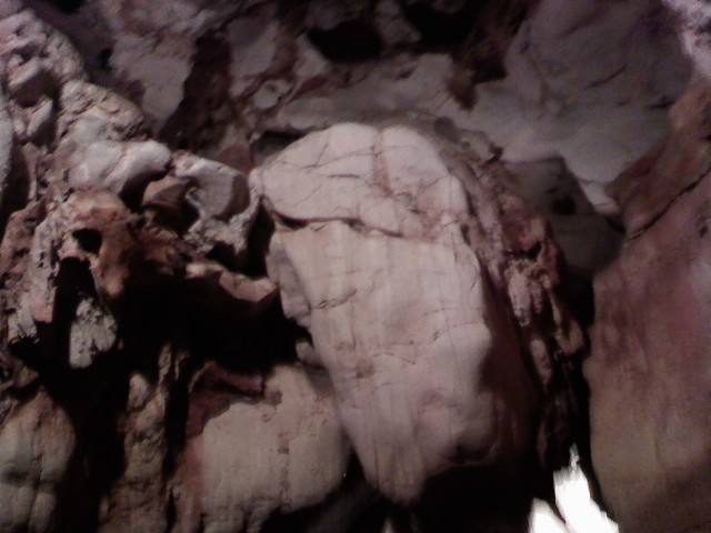 A picture that was taken inside Rushmore Cave.